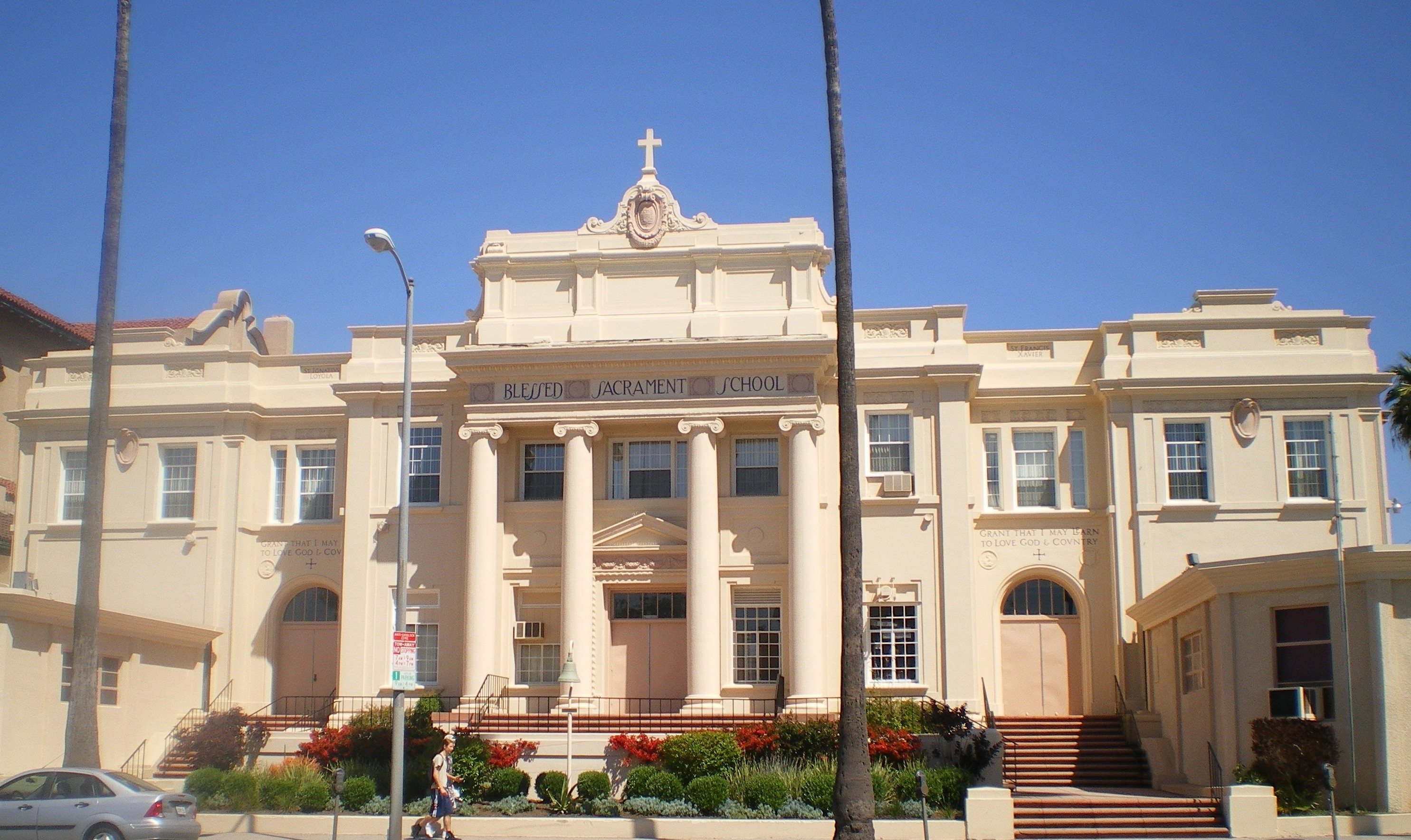 The Blessed Sacrament School, which was built in 1923, is part of the Blessed Sacrament Catholic Church in Hollywood, California